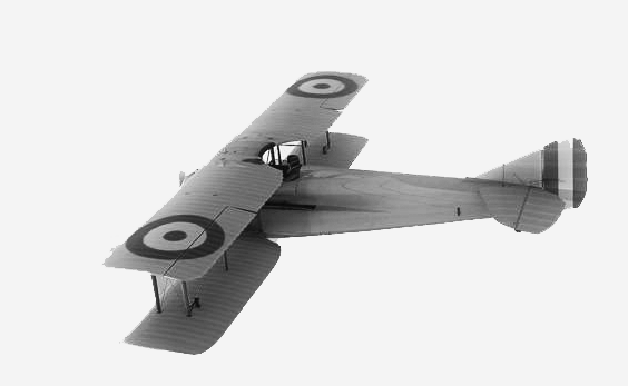 Spad VII